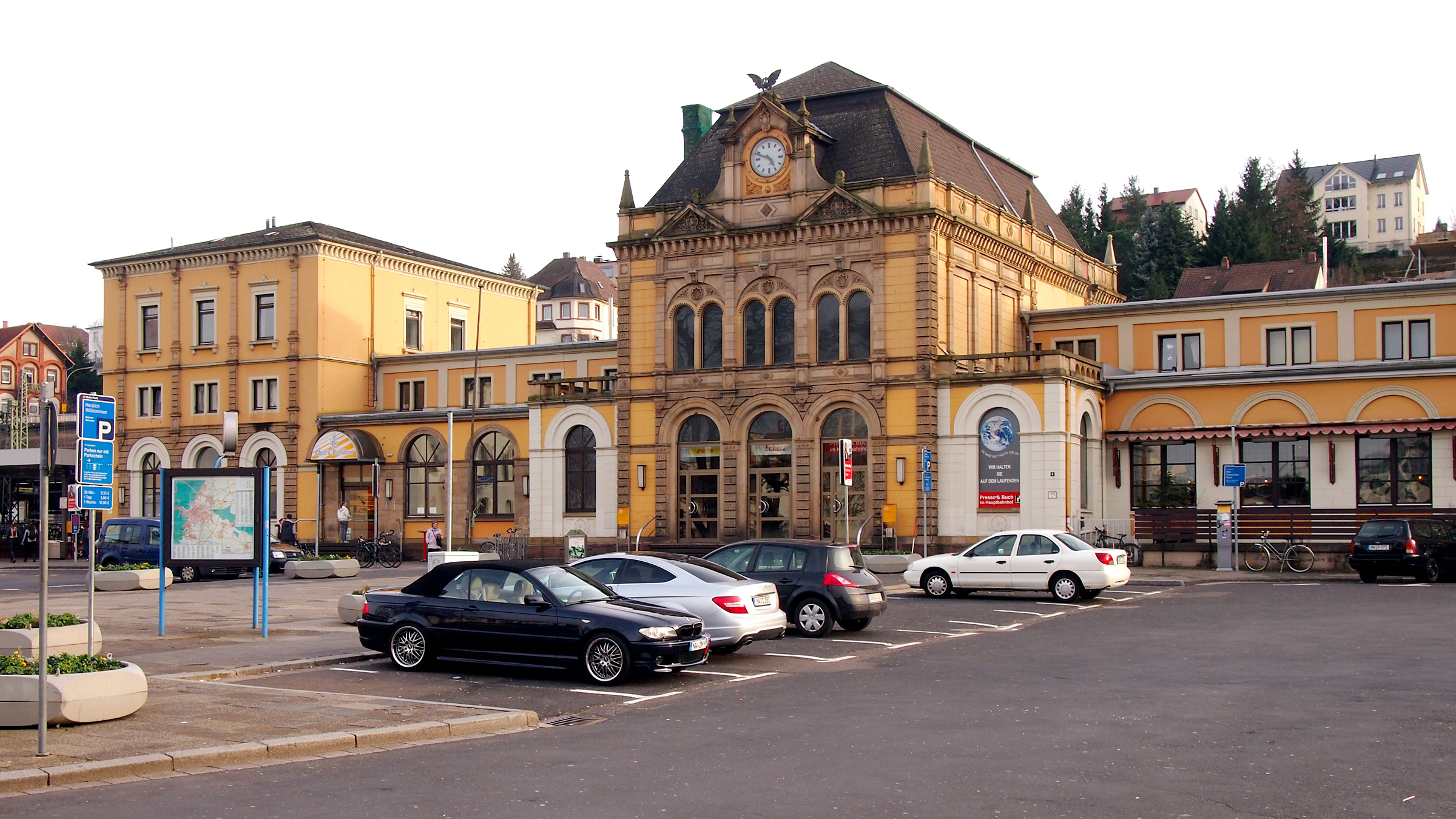 Neustadt an der Weinstraße, Hauptbahnhof, railway station